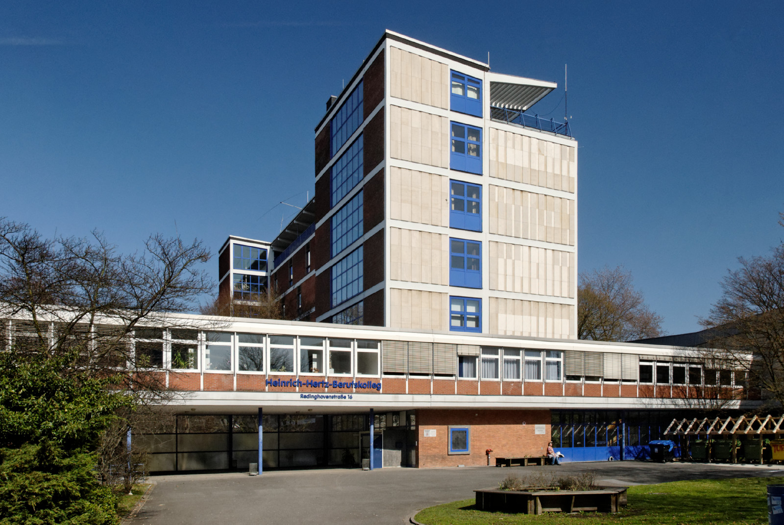 Heinrich-Hertz-Berufskolleg in Düsseldorf-Bilk, Germany